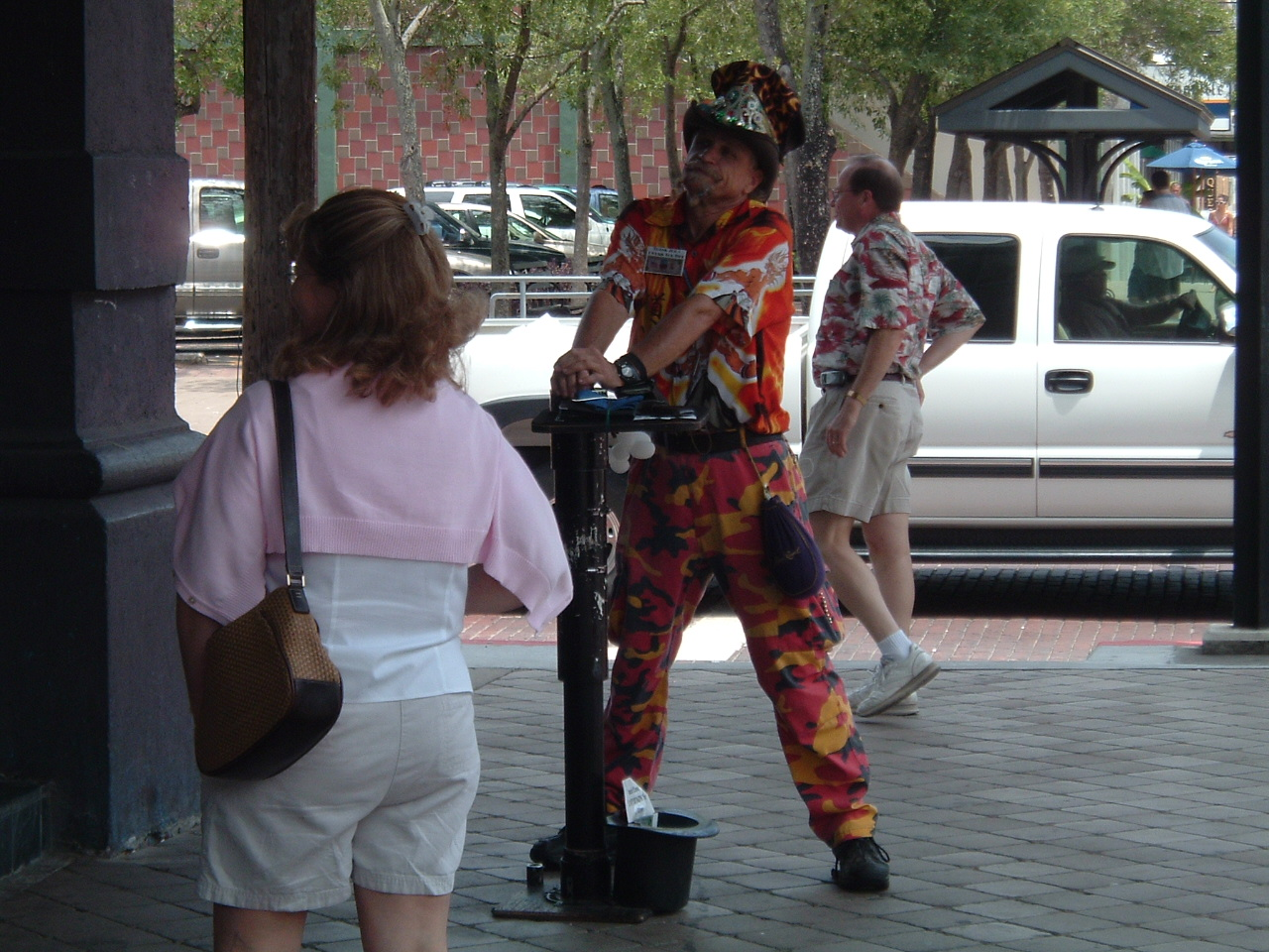 Street performer, The Strand, Galveston, Texas. Taken by this user.